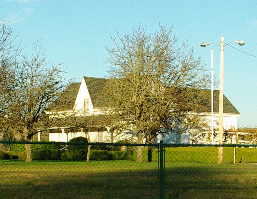 Robert Newell's House near Champoeg, Oregon.